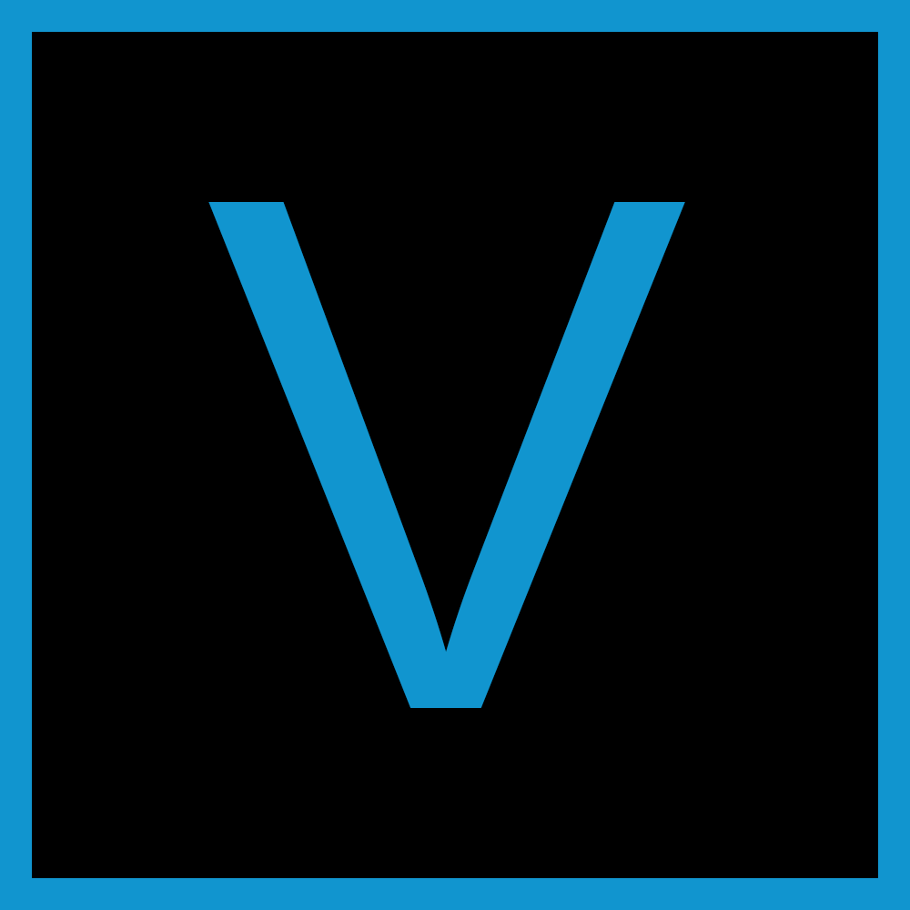 It's a recreation of the Vegas Pro 15 logo that I made in Photoshop CC 2017.